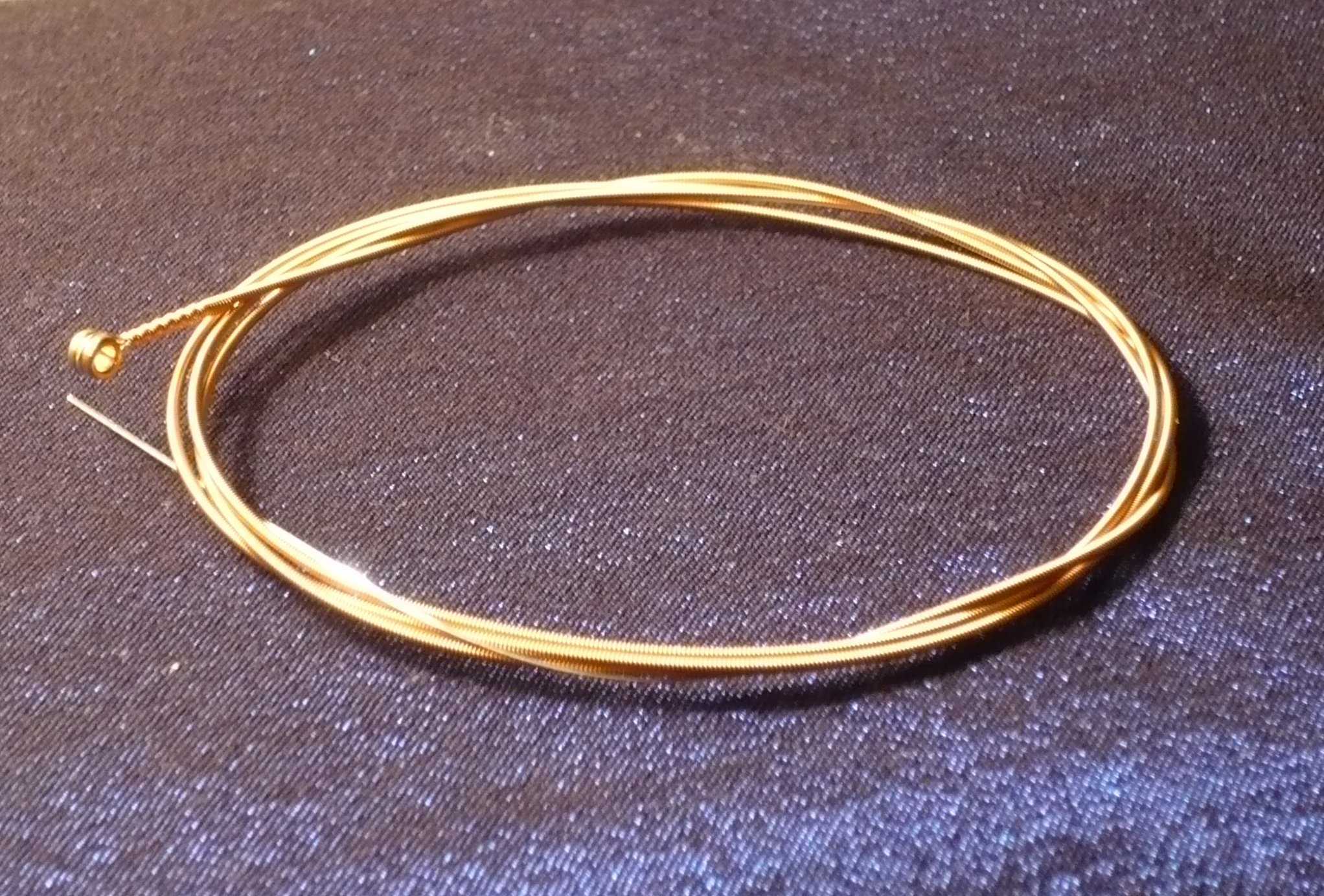 An acoustic guitar string. 0.044-inch (1.117 mm) diameter acoustic guitar string made of steel wrapped in phosphor bronze, produced by GHS Strings of Battle Creek, Michigan. Photo taken in Kent, Ohio with a Panasonic Lumix digital camera (model DMC-LS75).